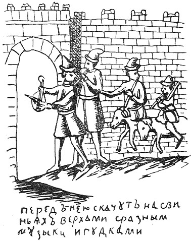 18th-century lubok representing Russian skomorokhs